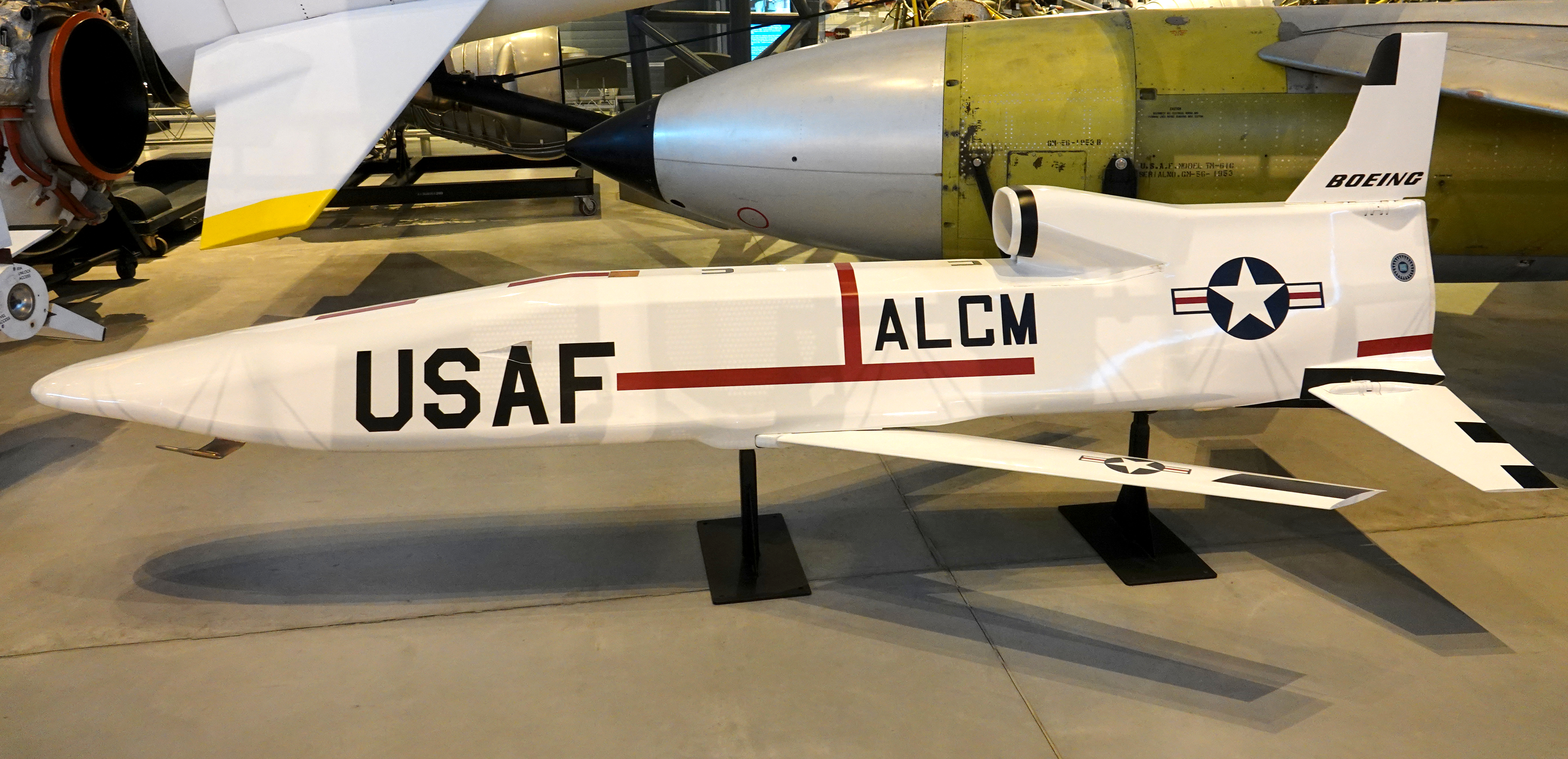 The AGM-86A was the ﬁrst version of the US. Air Force’s air-launched cruise missile (ALCM). Designed to carry either a conventional or nuclear warhead, it had a turbofan jet engine, ﬂew at subsonic speeds, and used an inertial navigation system with terrain contour-matching radar. Because the missile ﬂew close to the ground, it was difficult for enemy radars to detect. Most AGM-86As were used in flight tests in 1976. The missile never became operational. Subsequent versions of the ALCM with conventional or nuclear warheads and longer range have been produced and deployed on B-1 and B-52 bombers. Picture taken at the National Air and Space Museum's Steven F. Udvar-Hazy Center in Chantilly, Virginia, USA.